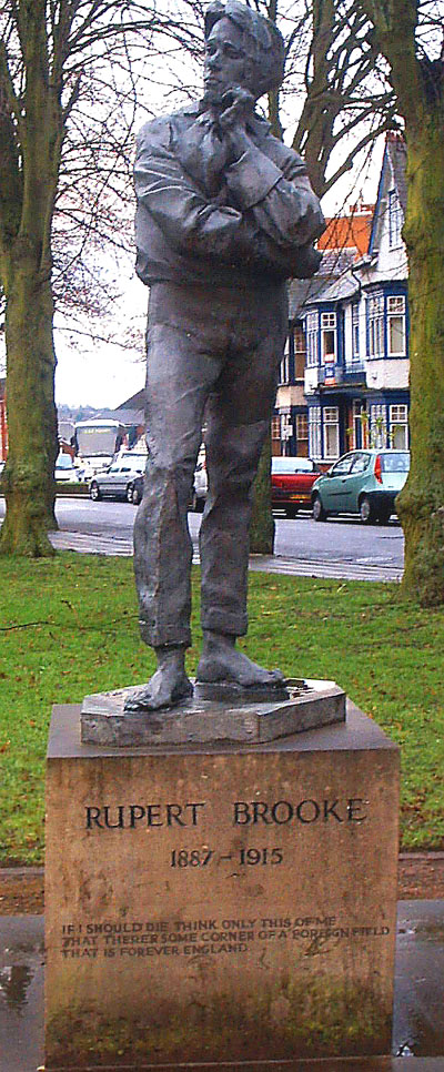 A statue of Rupert Brooke in his birth town of Rugby. Photo by G-Man Jan 2005.